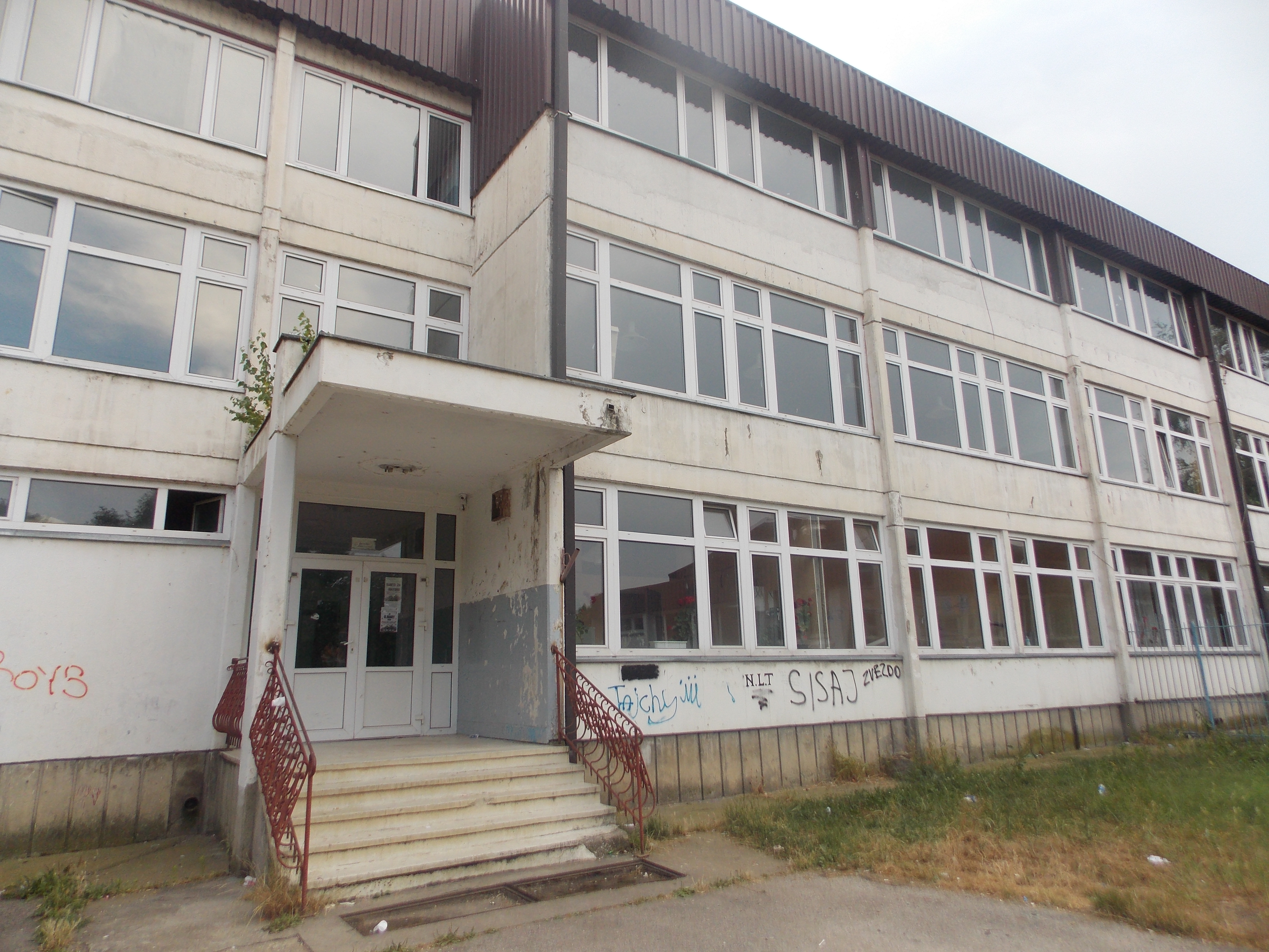 Bojnik Leskovac